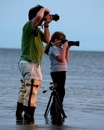 Father And Daughter Take Sunset Pictures Of Old Pier By Carole Robertson